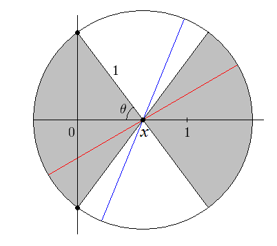 To accompany a proof in Wikipedia:Buffon's needle